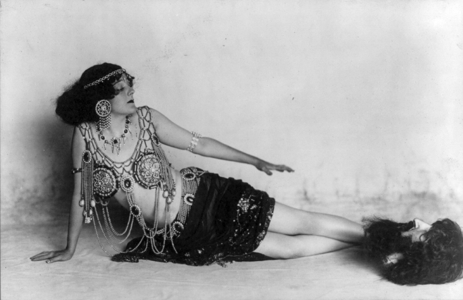 Gertrude Hoffmann, scantily-dressed for role in opera, "Salome", with head of John the Baptist at feet.